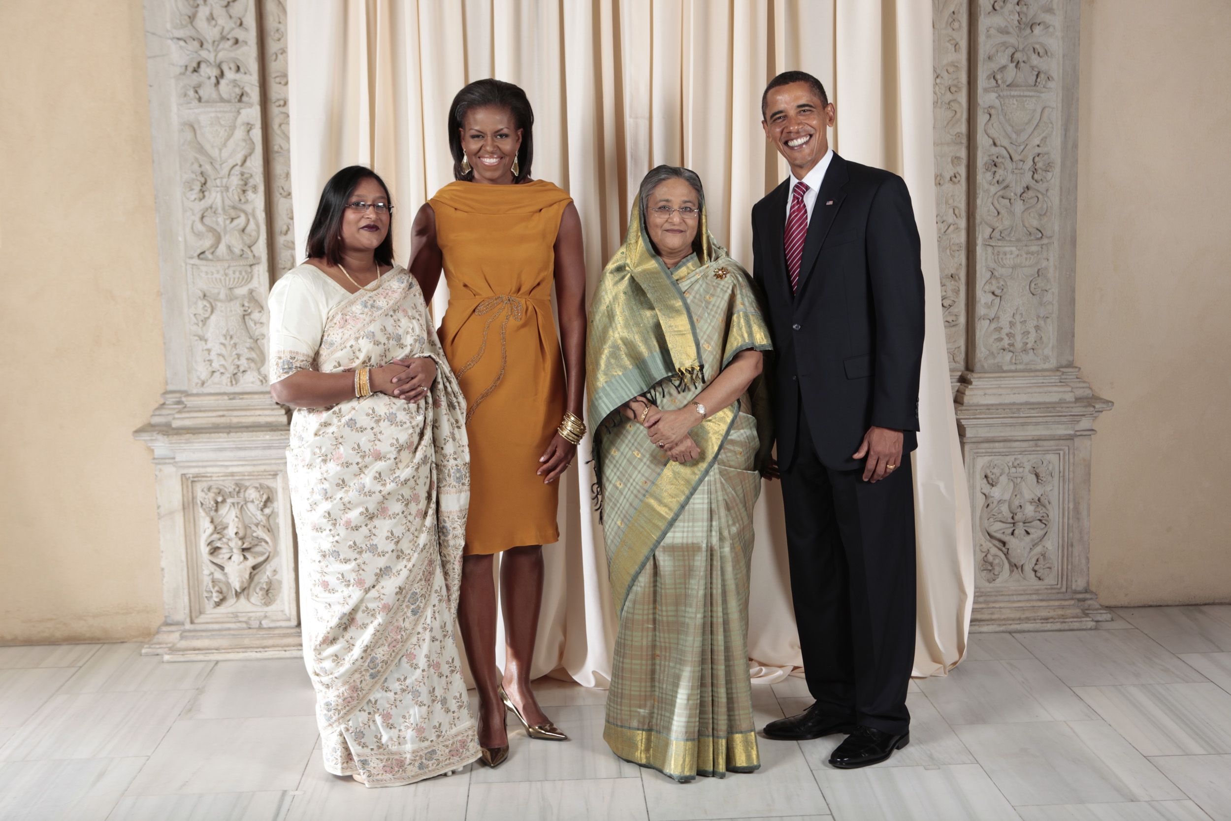 President Barack Obama and First Lady Michelle Obama pose for a photo during a reception at the Metropolitan Museum in New York with Sheikh Hasina, Prime Minister of Bangladesh, and her daughter, Saima Hossain (far left).